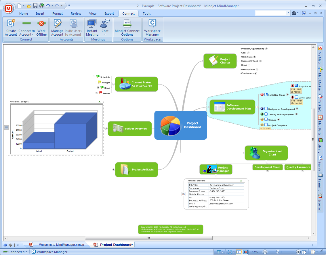 Screenshot of MindManager 8 software